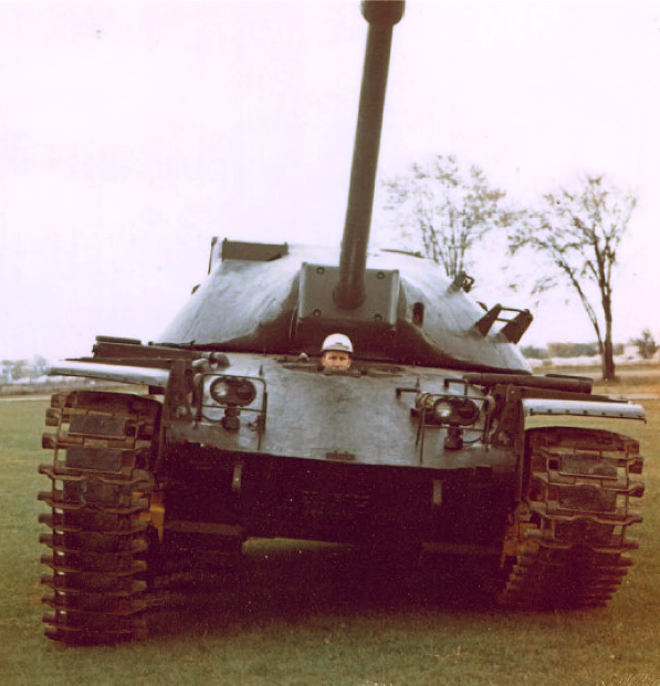 T95 prototype tilts on the left track